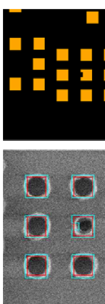 The contact dimension is significantly modified even by the presence of a subwavelength edge correction. Ref.: Proc. SPIE 6730, 67300P (2007).